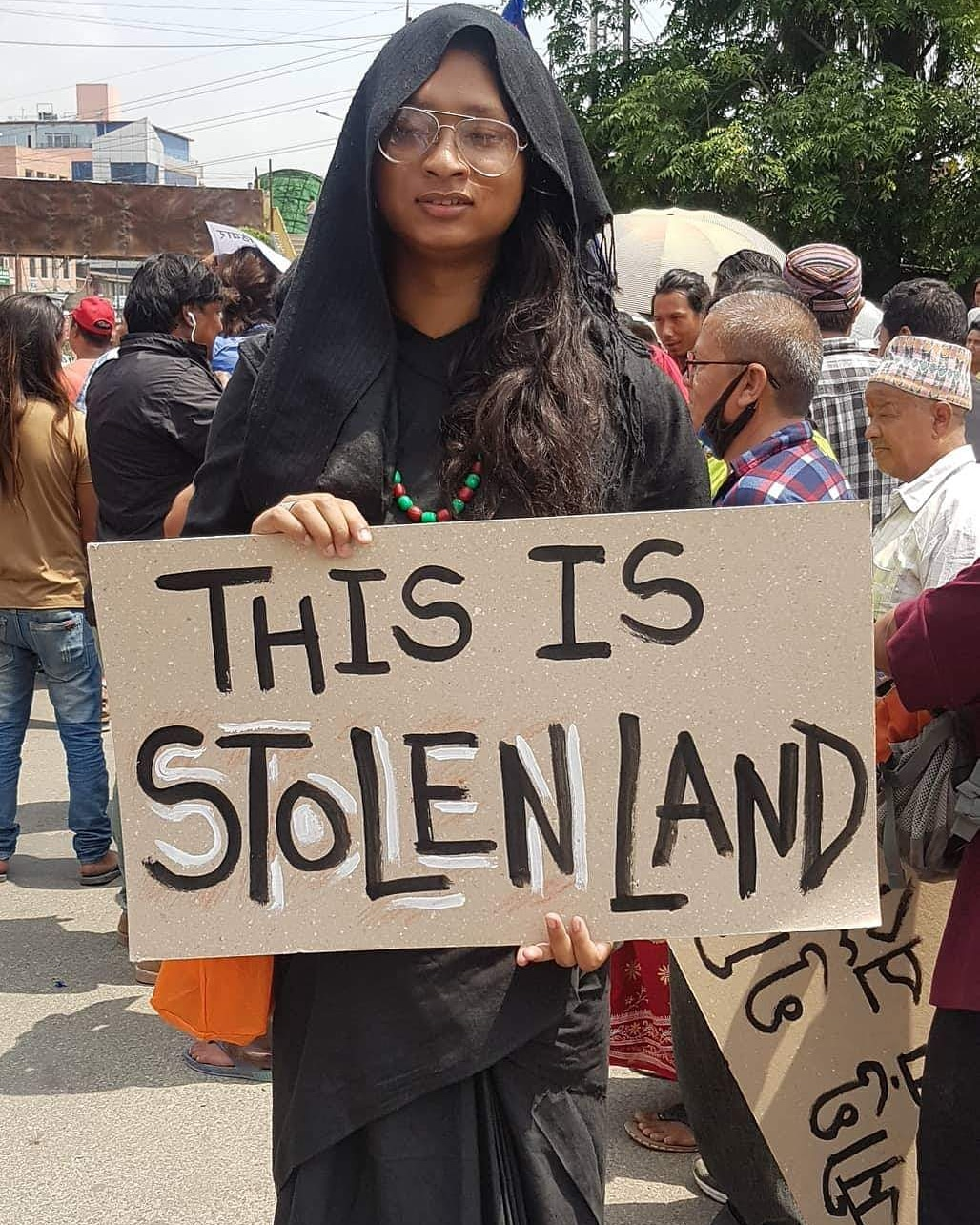 Thousands of Newars and allies gather at Fibwa Khya (Maitighar Mandala) on June 19, 2019 to protest against the Guthi Bill that has been proposed in the parliament. Guthi is a customary institution of Newar people. Violating the UNDRIP, government proposes a bill to bring law in order to take all control and power on the Guthis scrapping all the rights of its traditional owners.